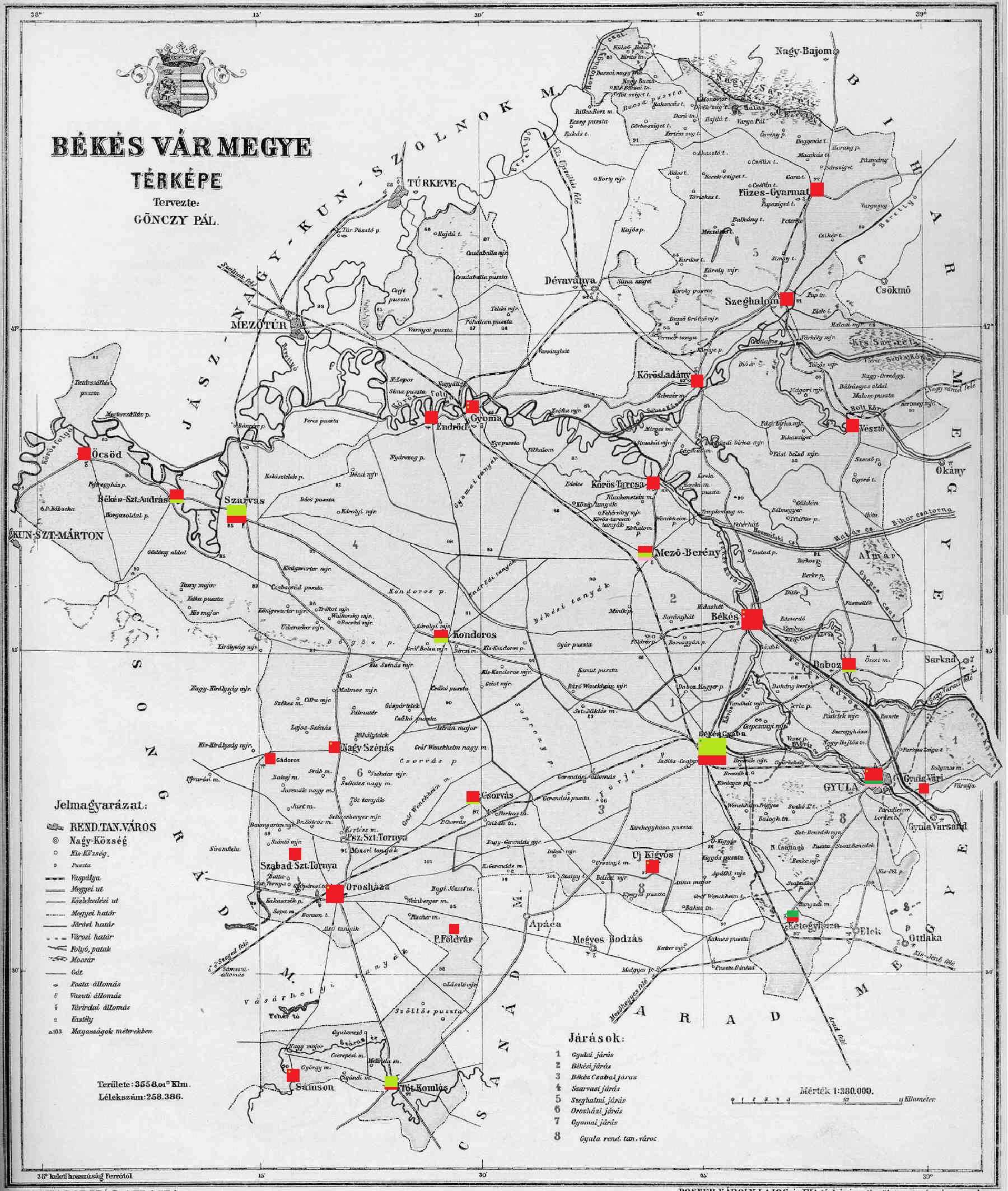 Ethnic map of the county (with data of the 1910 census). Key: red - Hungarians; light green - Slovaks; pink - Germans; dark green - Romanians. Coloured dots in plain rectangles imply the presence of smaller minority populations (generally more than 100 people or 10%). Multicoloured rectangles imply cities and villages with multi-ethnic populations with the order of the stripes following the ethnic composition of the settlement.